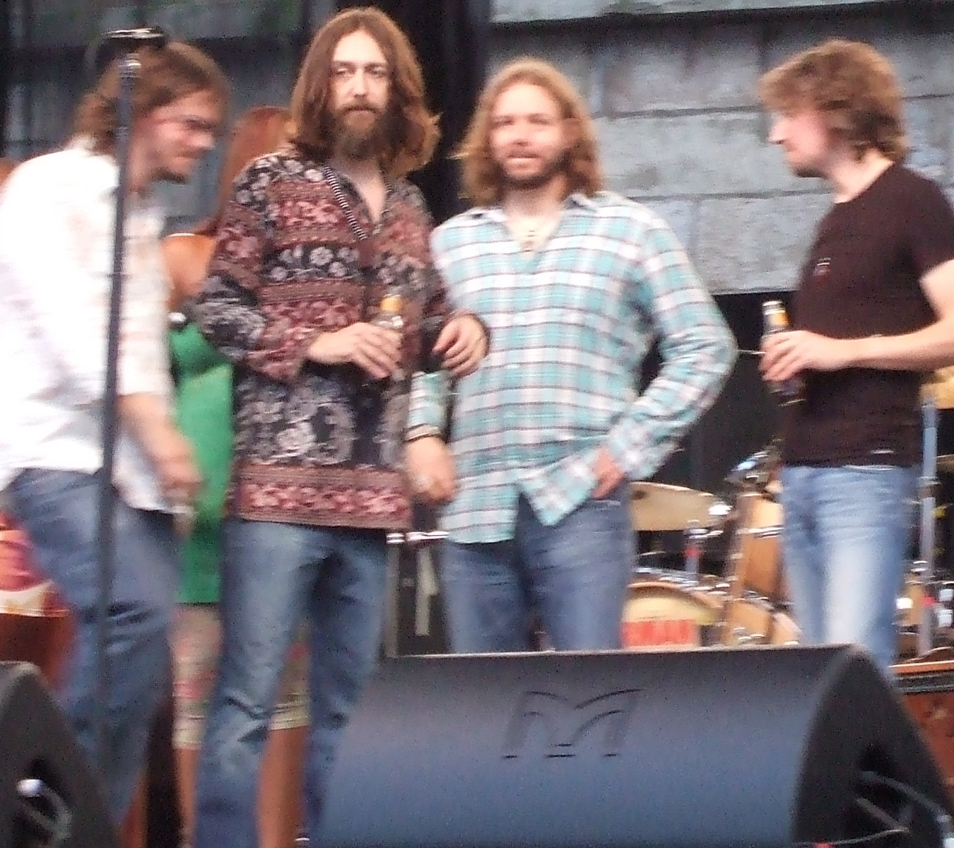 Chris Robinson, flanked by Luther Dickinson, Rich Robinson, and Adam MacDougall (After performance by The Black Crowes at the 2008 Newport Folk Festival)